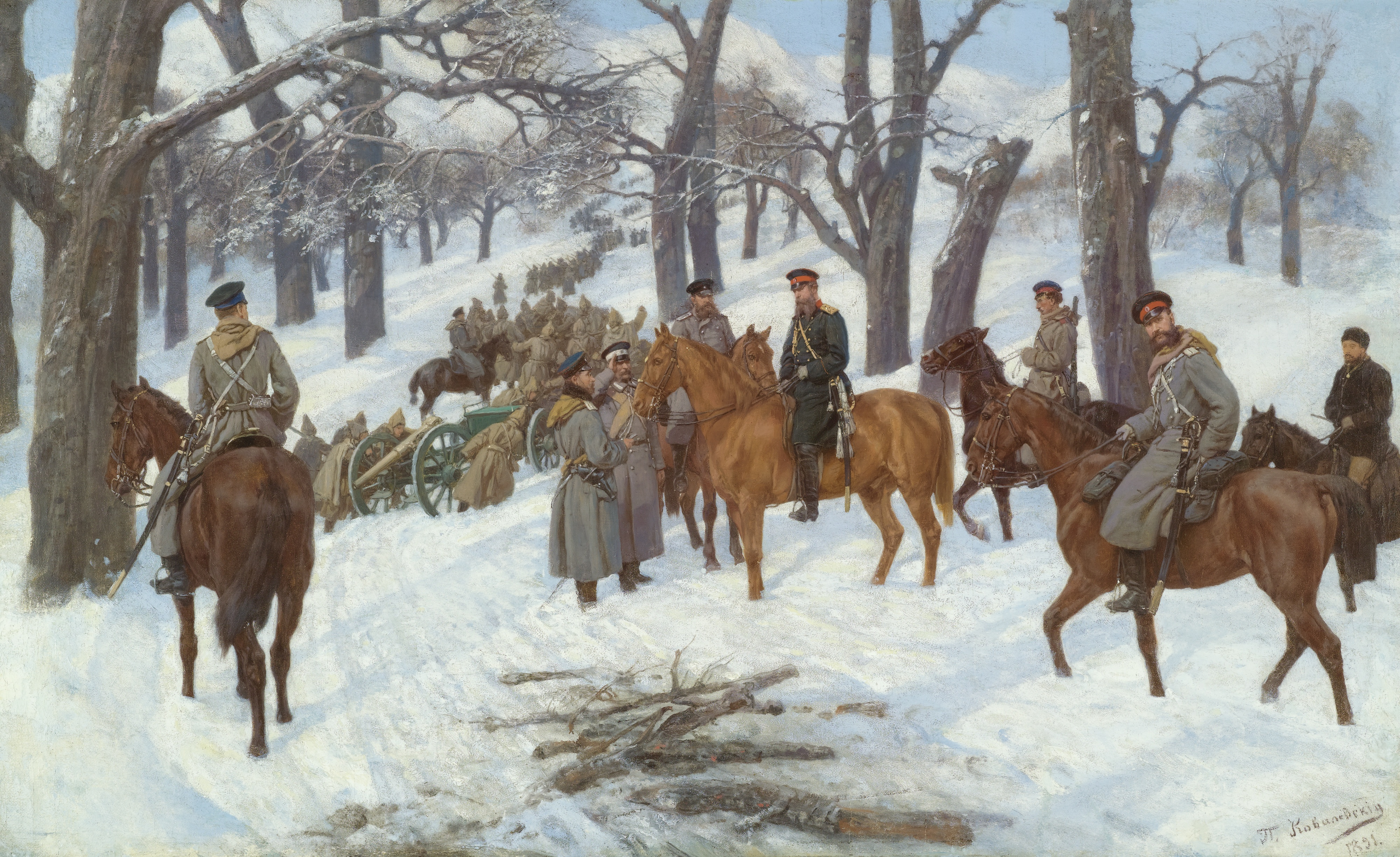 General Iosif Gurko in the Balkans. Signed in Cyrillic and dated 1891 l.r. Oil on canvas. 48.7 by 79.5cm, 19 1/4 by 31 1/4 in.